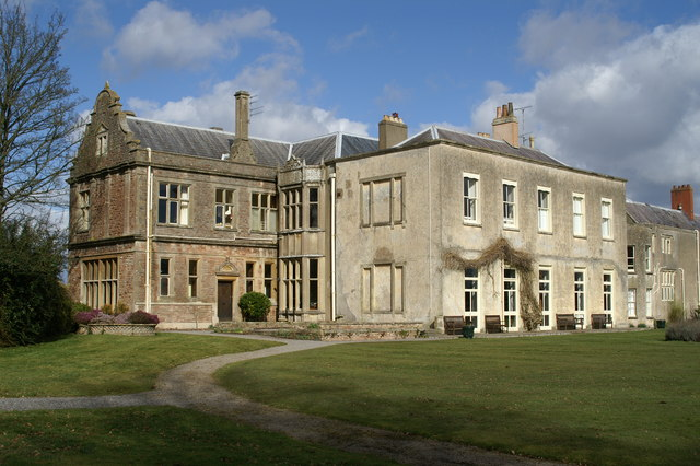 The Downs School. Boarding and day school for boys & girls aged 4 to 13